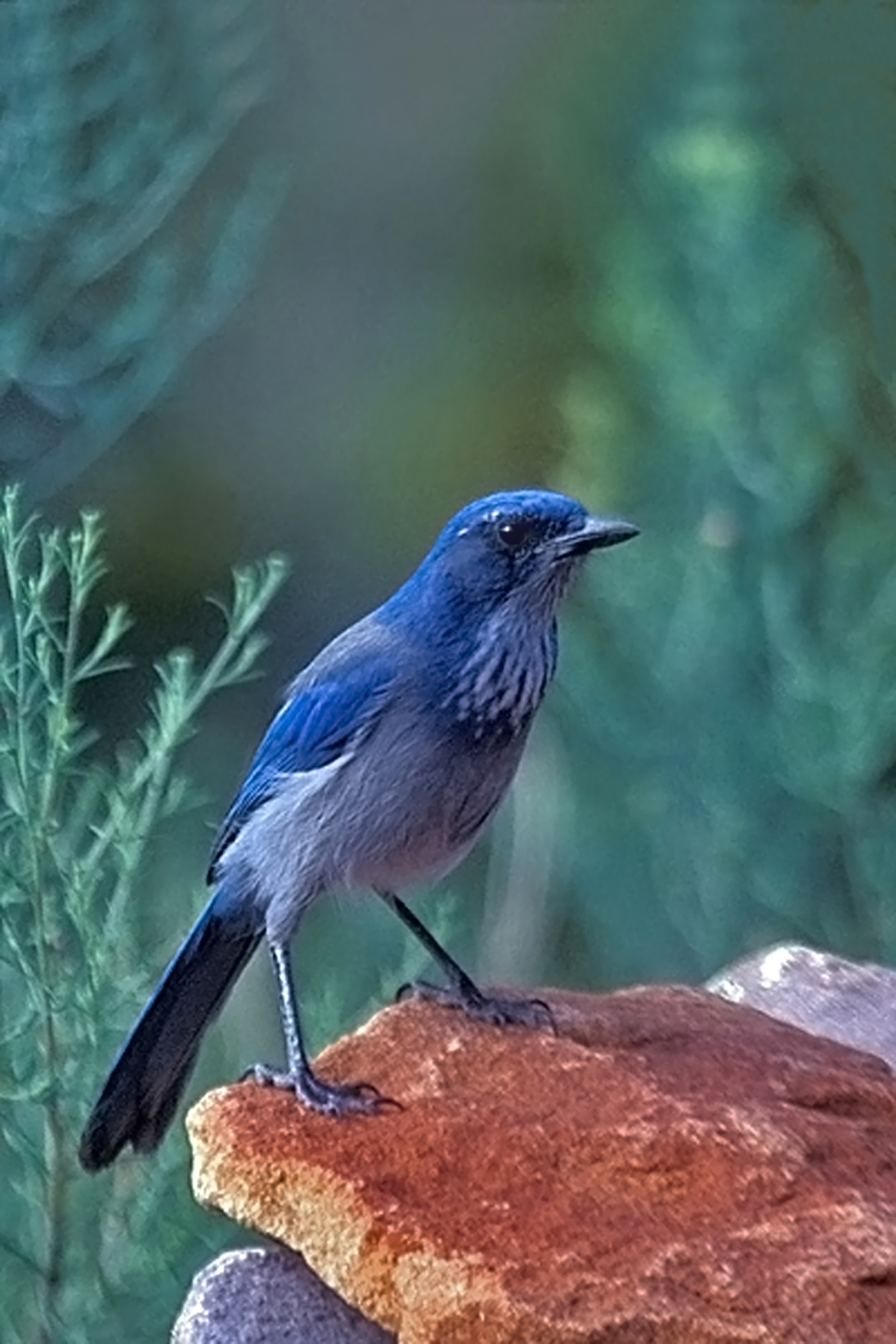 Aphelocoma woodhouseii, Santa Fe, New Mexico. The rock this bird is standing on is part of my bird pond with a character rock with a concave top that serves as a drinking/bathing place for many bird species.